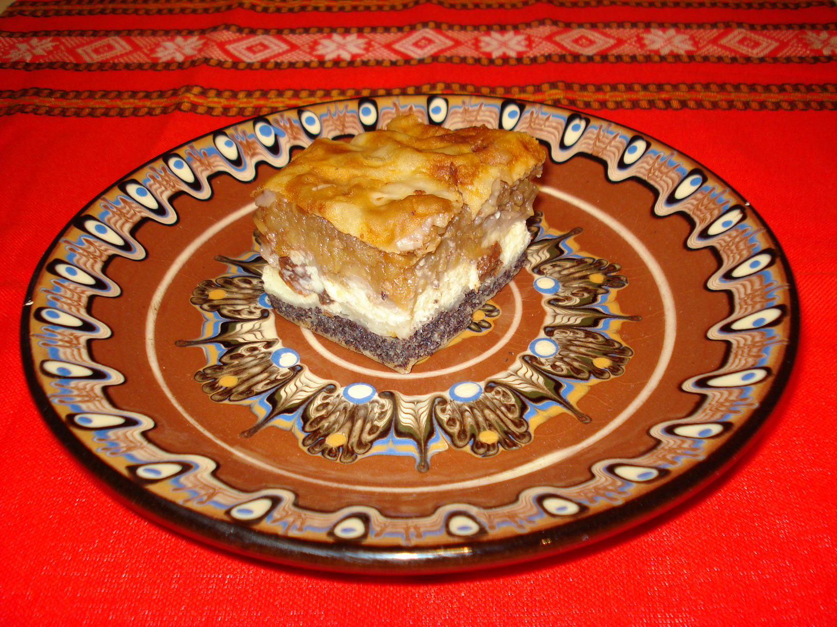 Međimurska gibanica - fruit and fresh cheese layered cake from Medjimurje county, northern Croatia